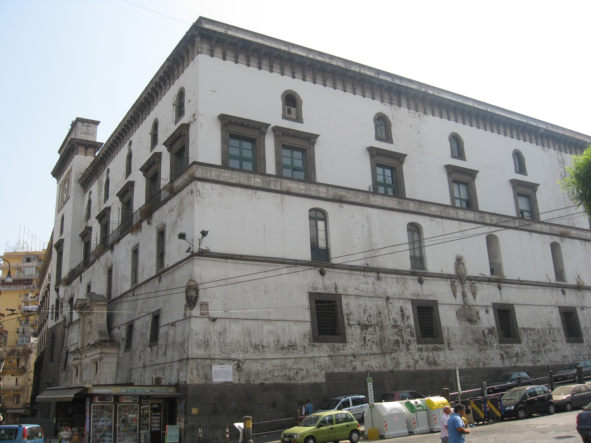 Castel Capuano, Naples